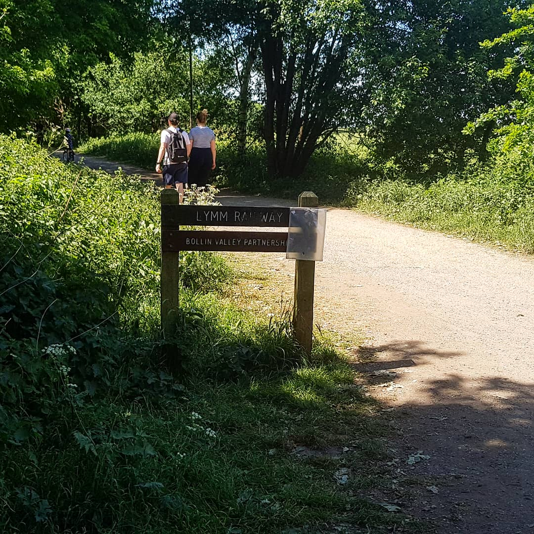 Lymm Railway Trail on the old Warrington to Altrincham route. It's now a cycle path.